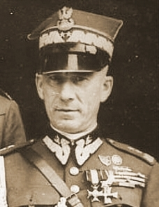 Mieczyslaw Norwid-Neugebauer, Polish General before and during WW II.